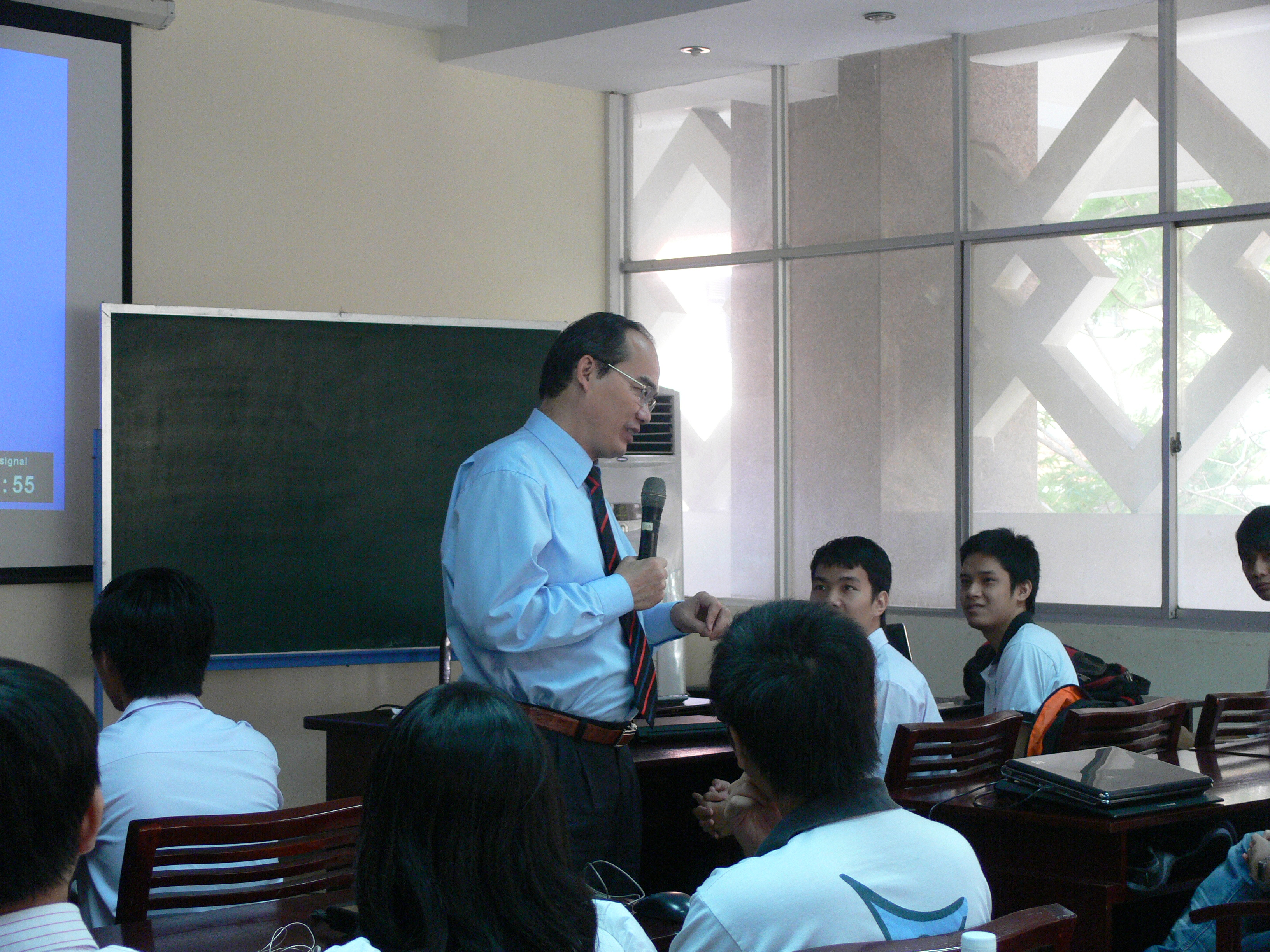 PTTg Nguyễn Thiện Nhân thăm trường ĐH KHTN